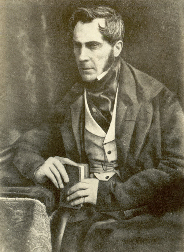 Calotype of an unknown man.